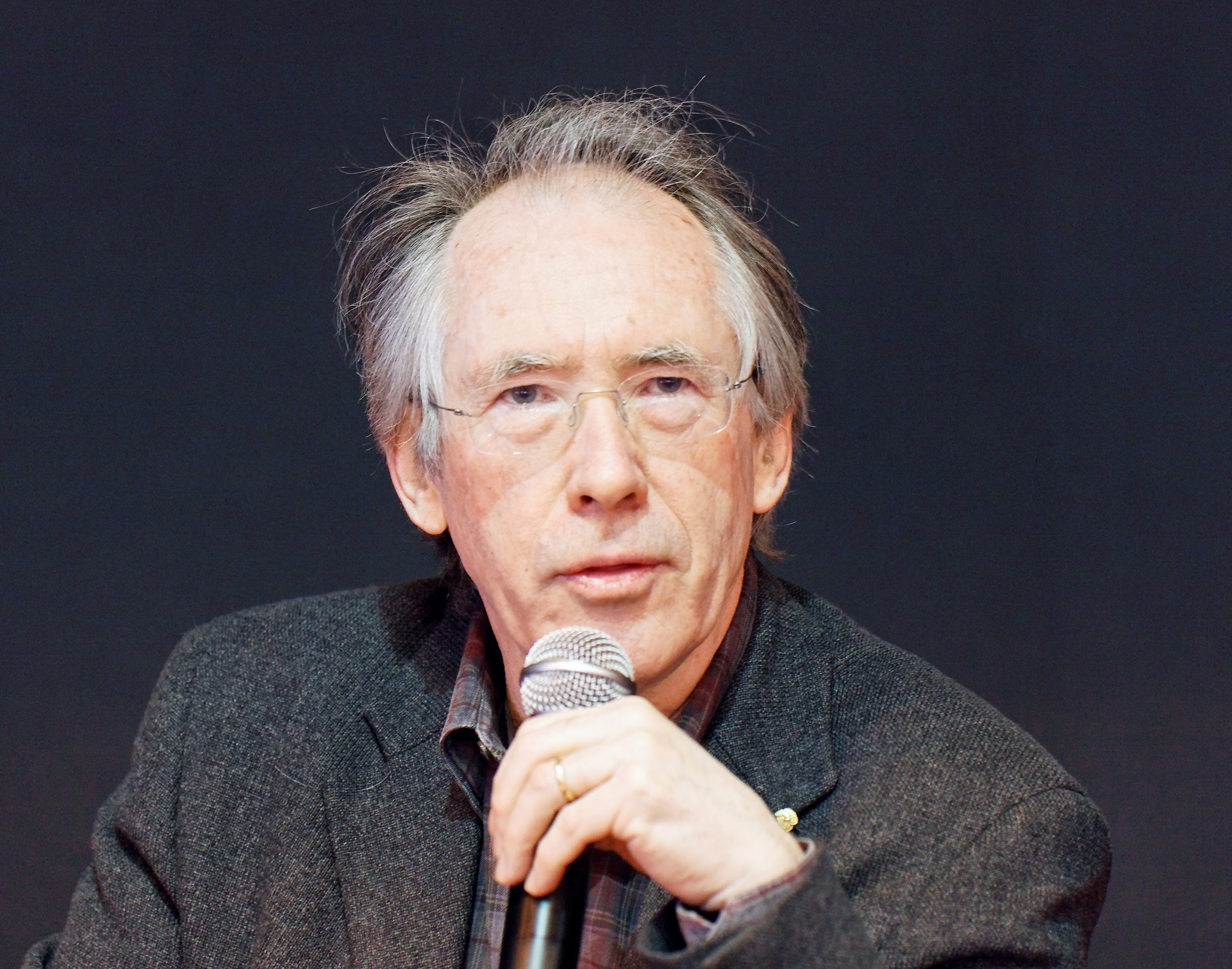 Ian McEwan, a british writer, photographed during the 2011 Paris book festival.